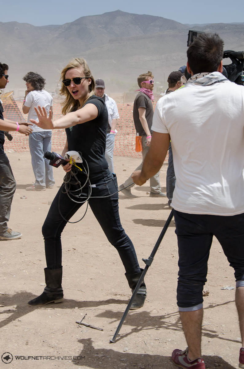 IGN reporters Fran Mirabella and Naomi Kyle having some fun in the wind